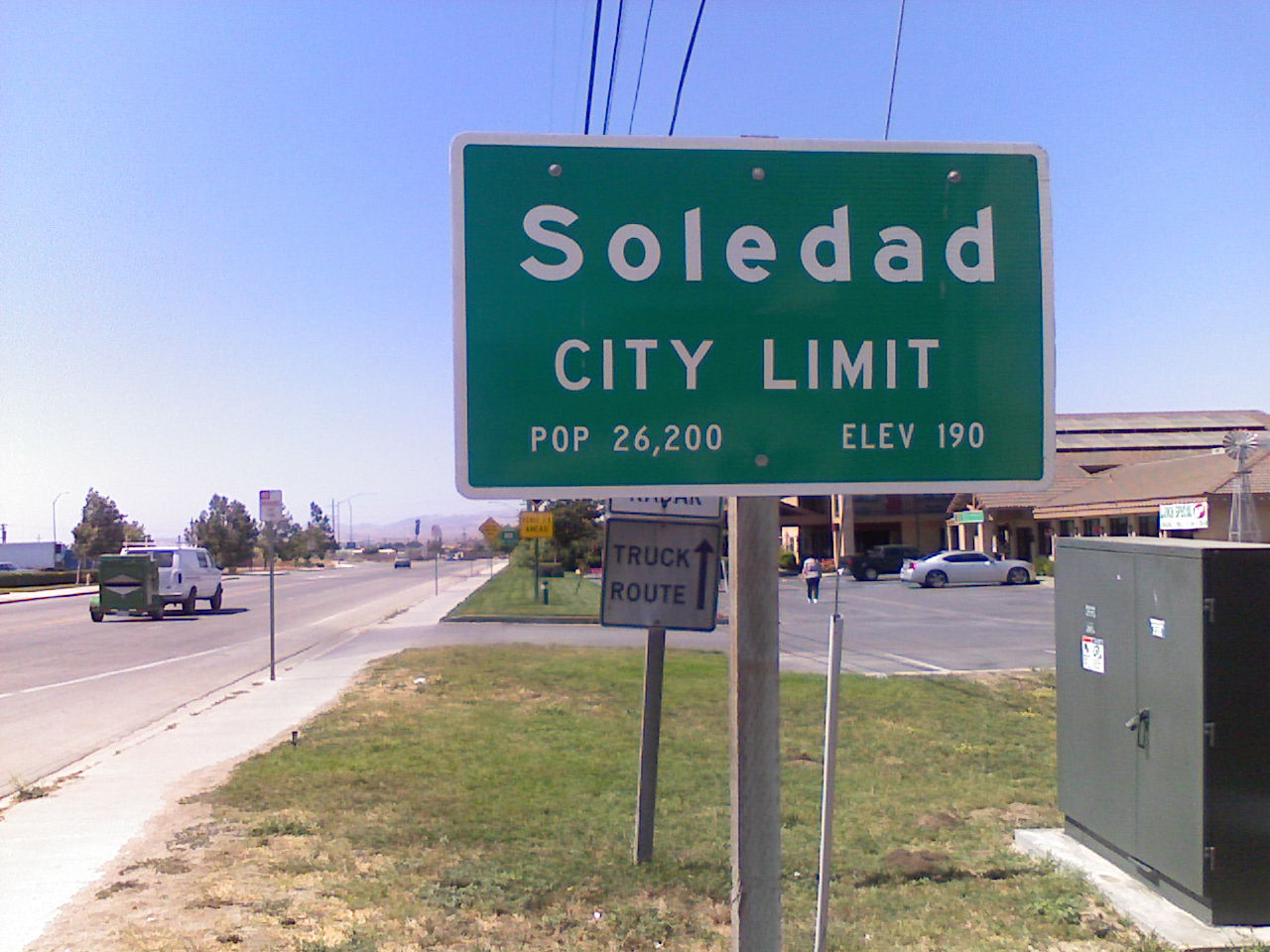 Soledad city limits